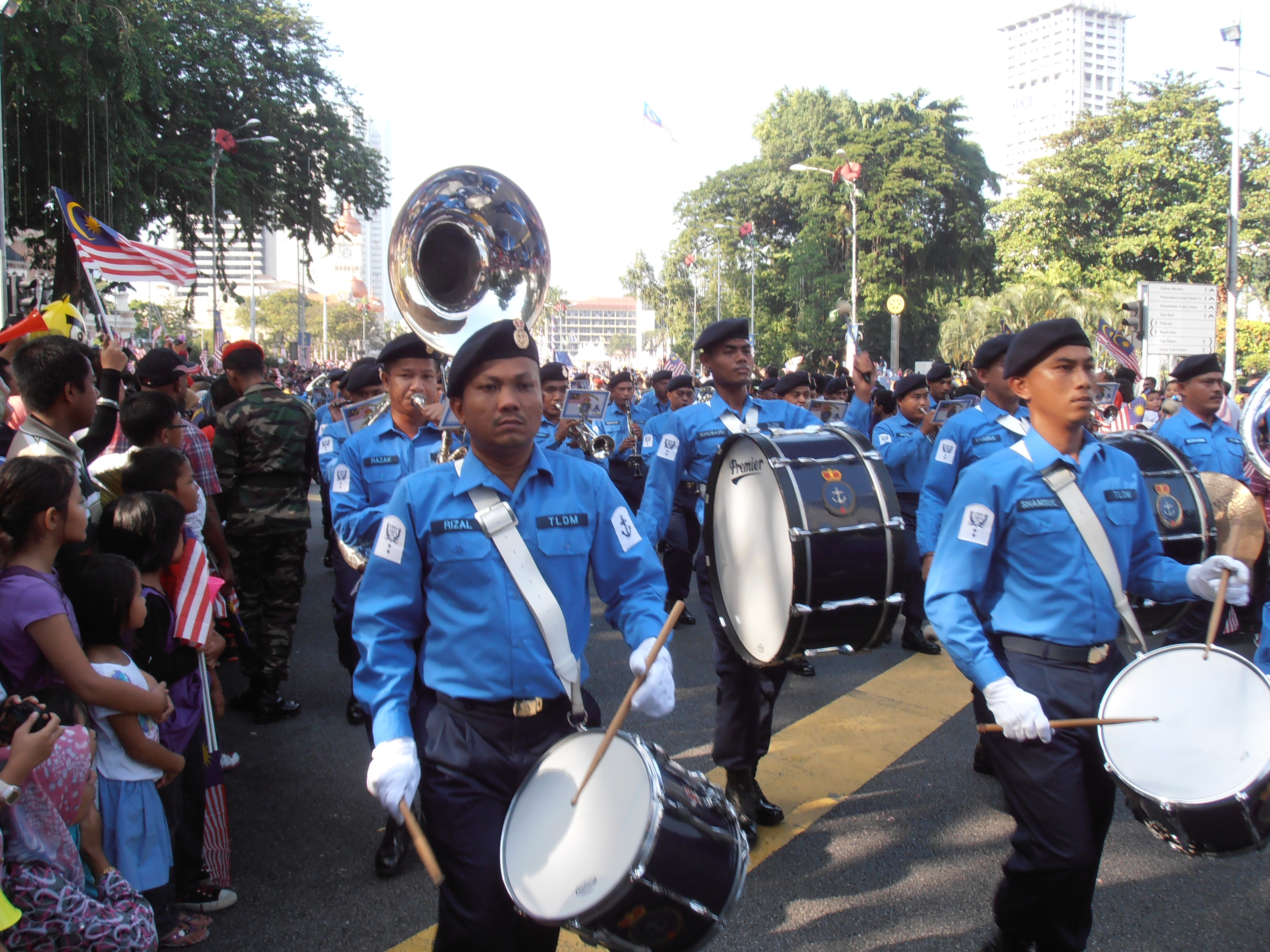 The detachment of Royal Malaysian Navy Music Bands on parade during the 55th National Day Parade of Malaysia at Merdeka Square, Kuala Lumpur.